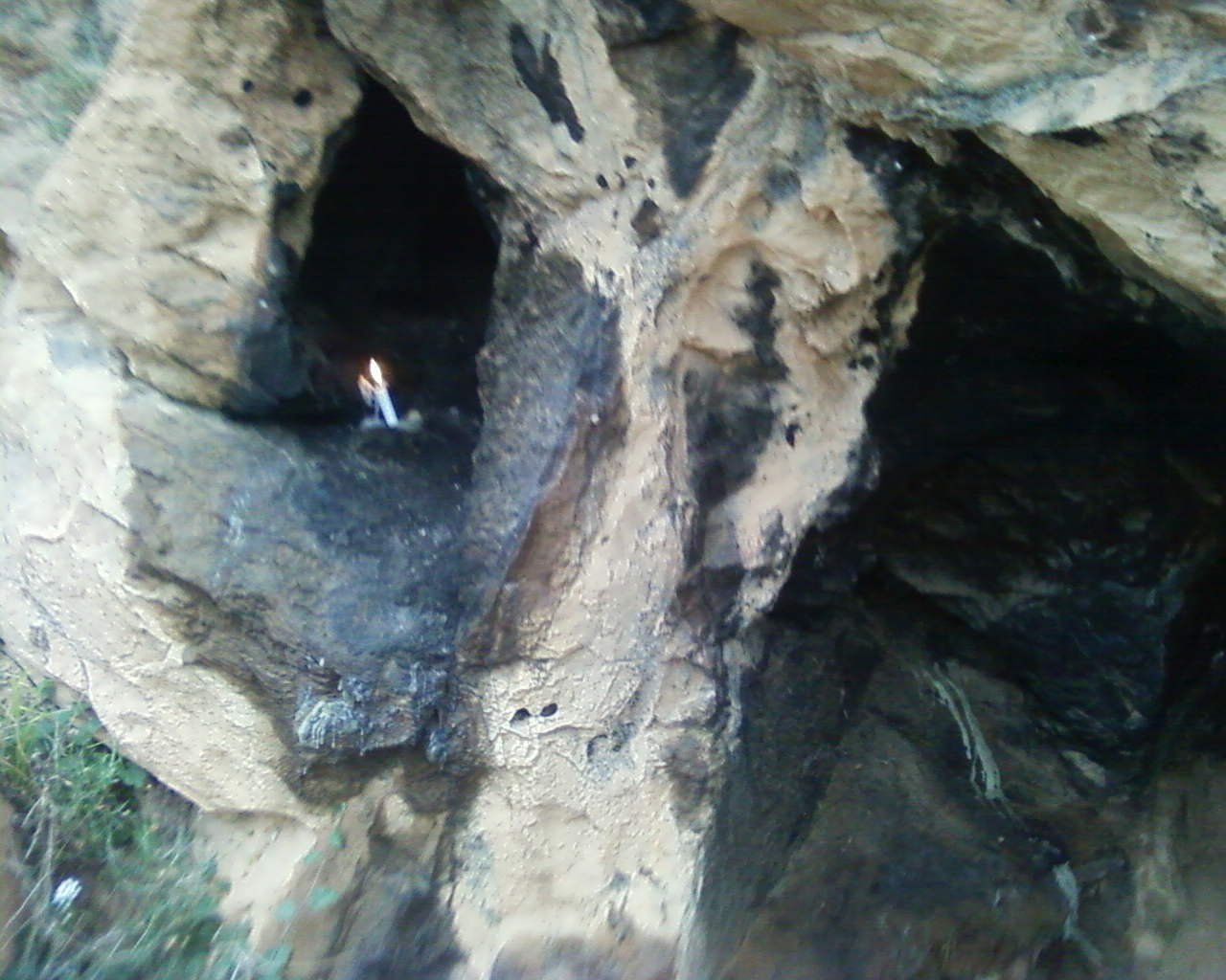 lxelwa